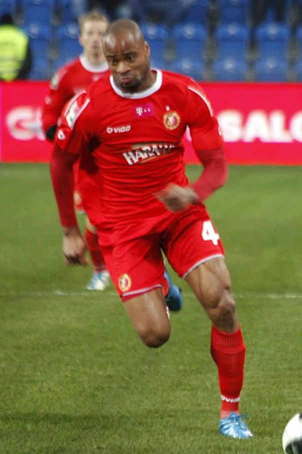 Nigerian football player Ugochukwu Ukah.